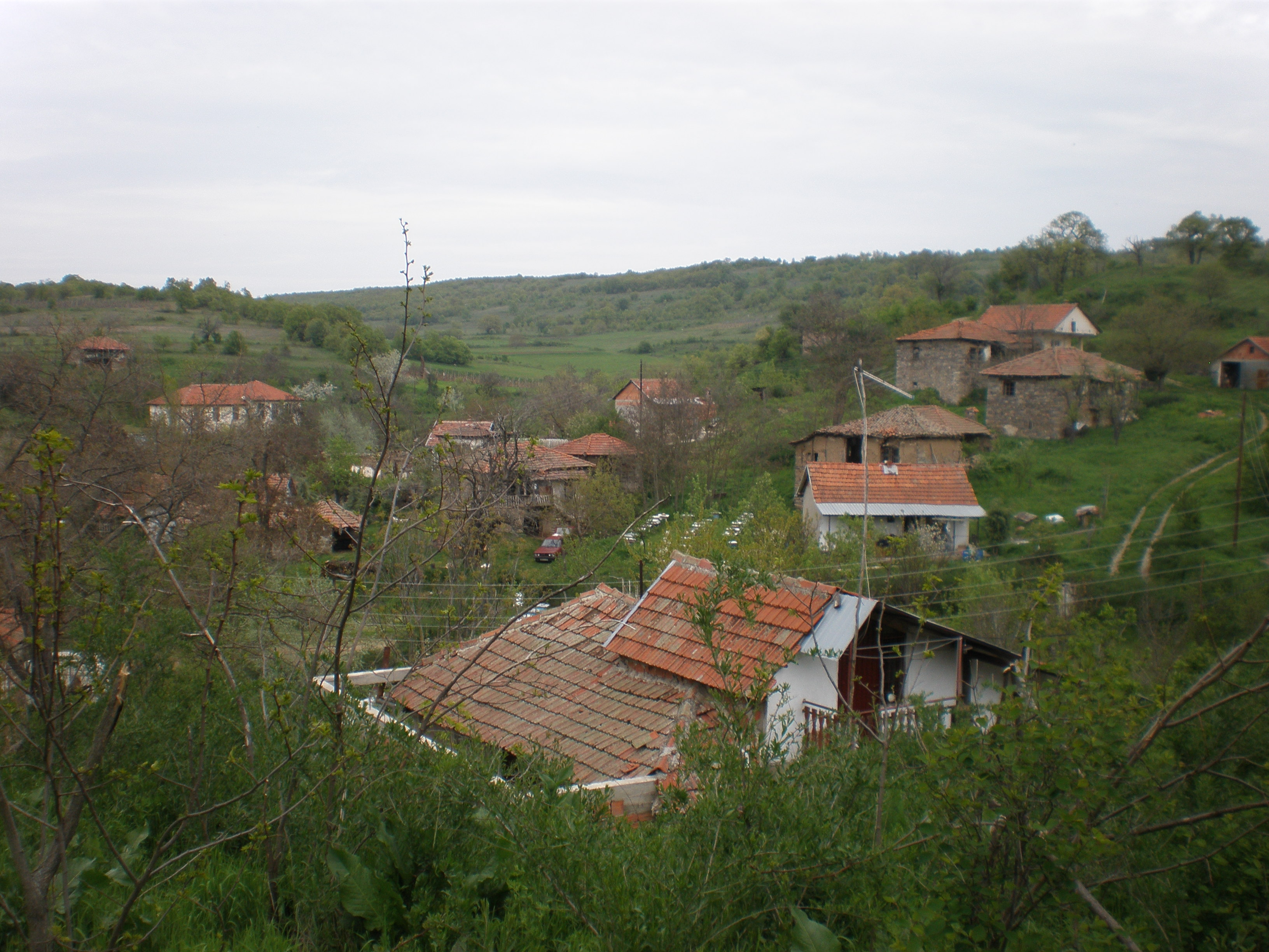 village of Dzidimirci, Veles Municipality, Macedonia